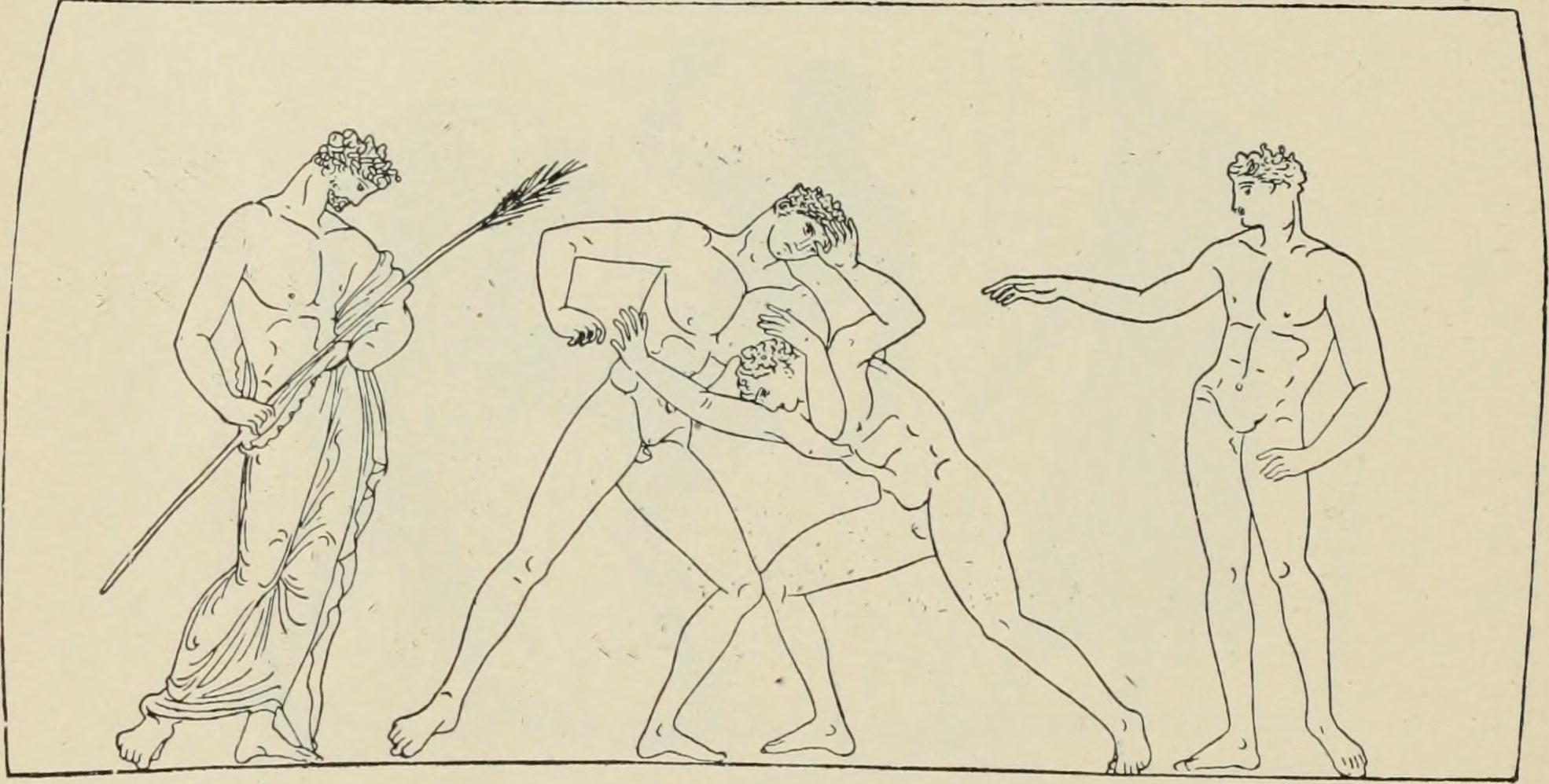 Panathenaic prize British Museum B604 Identifier: greekathleticspo00gard Title: Greek athletic sports and festivals Year: 1910 (1910s) Authors: Gardiner, E. Norman (Edward Norman), 1864-1930 Subjects: Athletics Sports Olympics Fasts and feasts Publisher: London : Macmillan and Co.